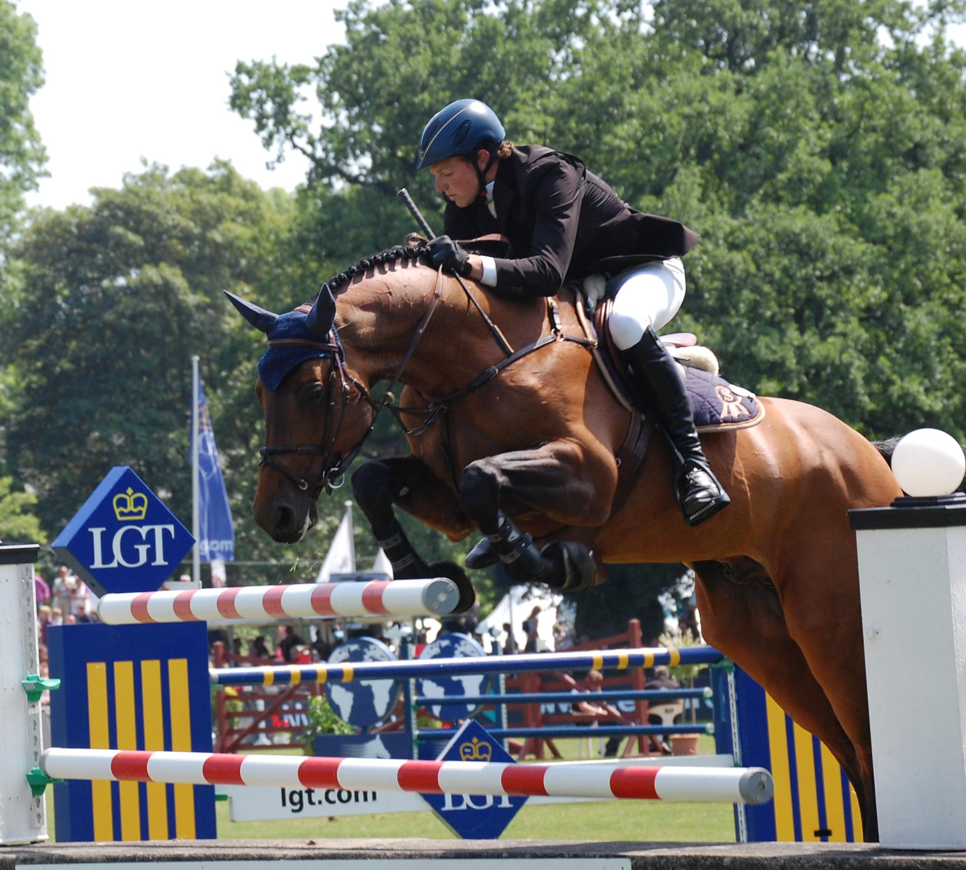 German rider Andreas Kreuzer with the Mecklenburger stallion Chacco-Blue, "Championat von Hamburg", CSI 5* Hamburg 2011